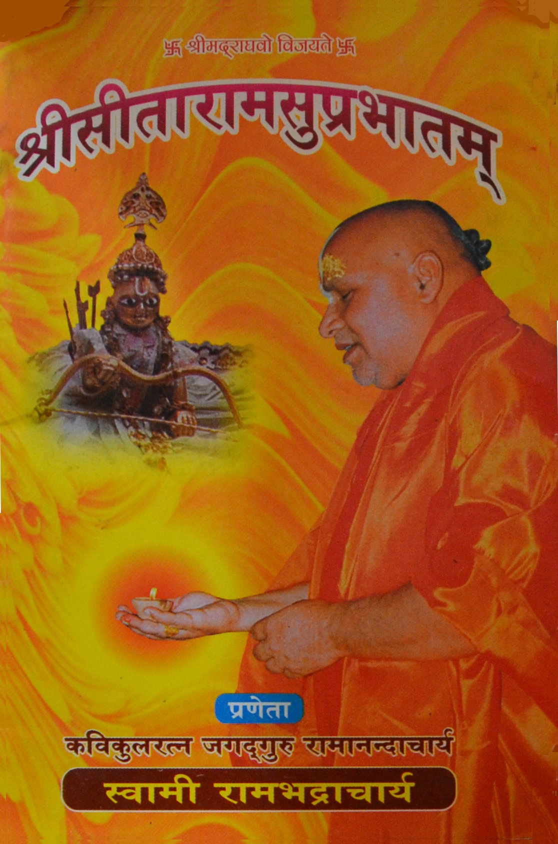 Cover page of Srisitaramasuprabhatam